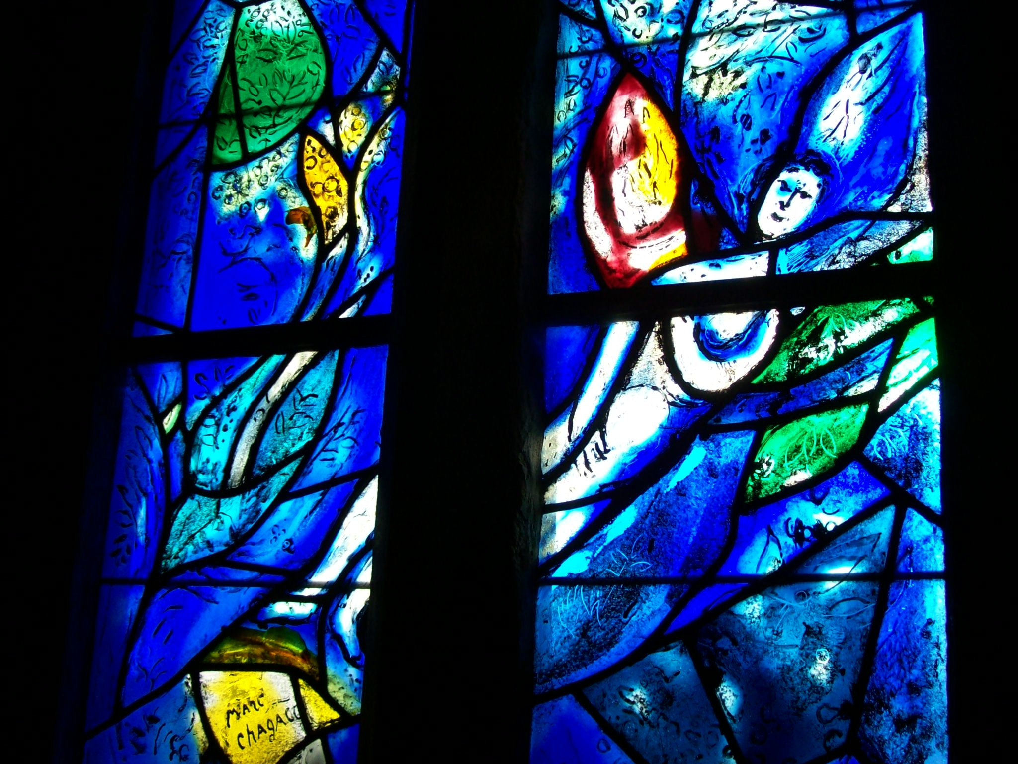 Angel by Marc Chagall, All Saints Tudeley